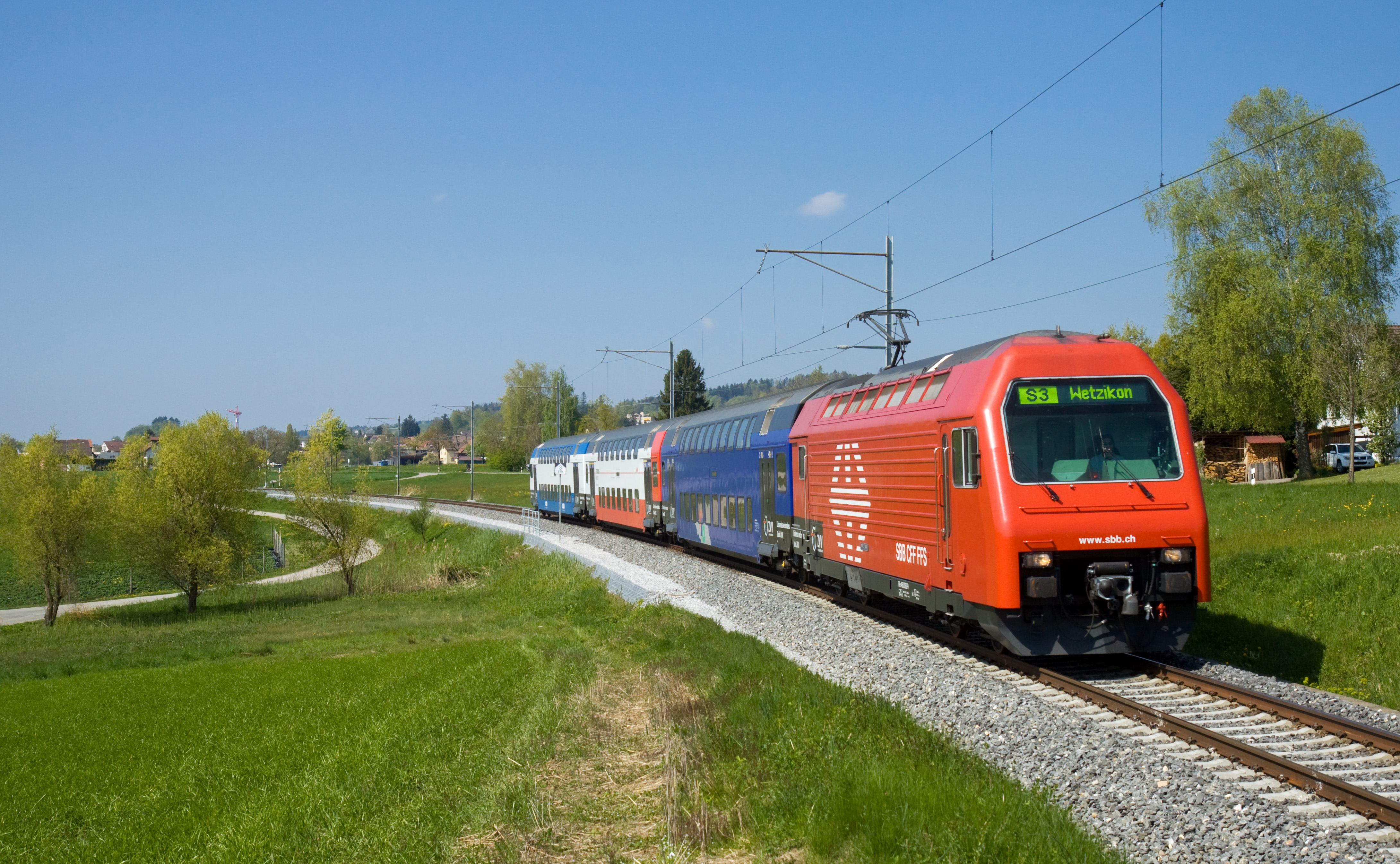 Special livery representing some of the transport operators that are part of the Zürcher Verkehrsverbund. Re 450: SBB; B: VZO; AB: Stadtbus Winterthur; Bt: VBZ. The other side of the train is different and represents four different operators.